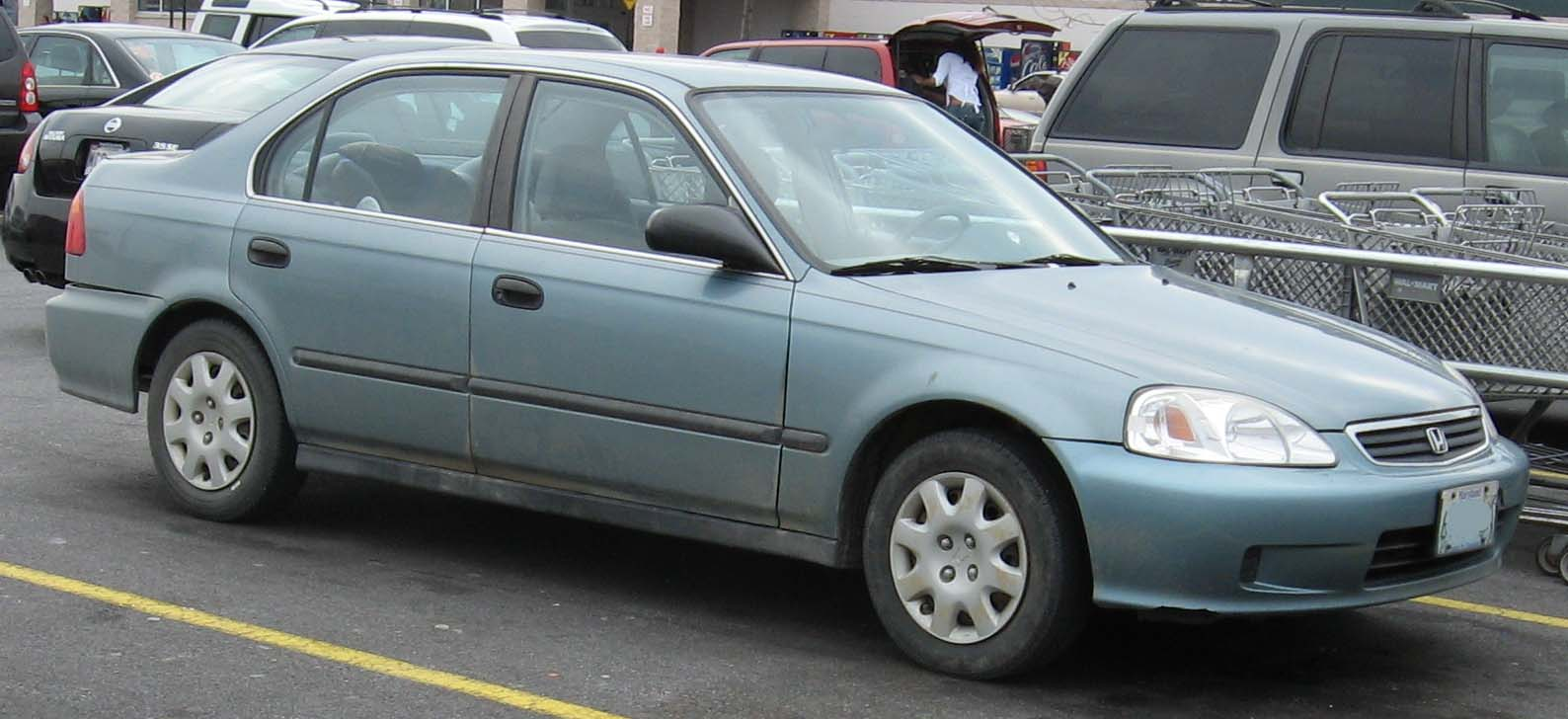 1999-2000 Honda Civic photographed in USA.